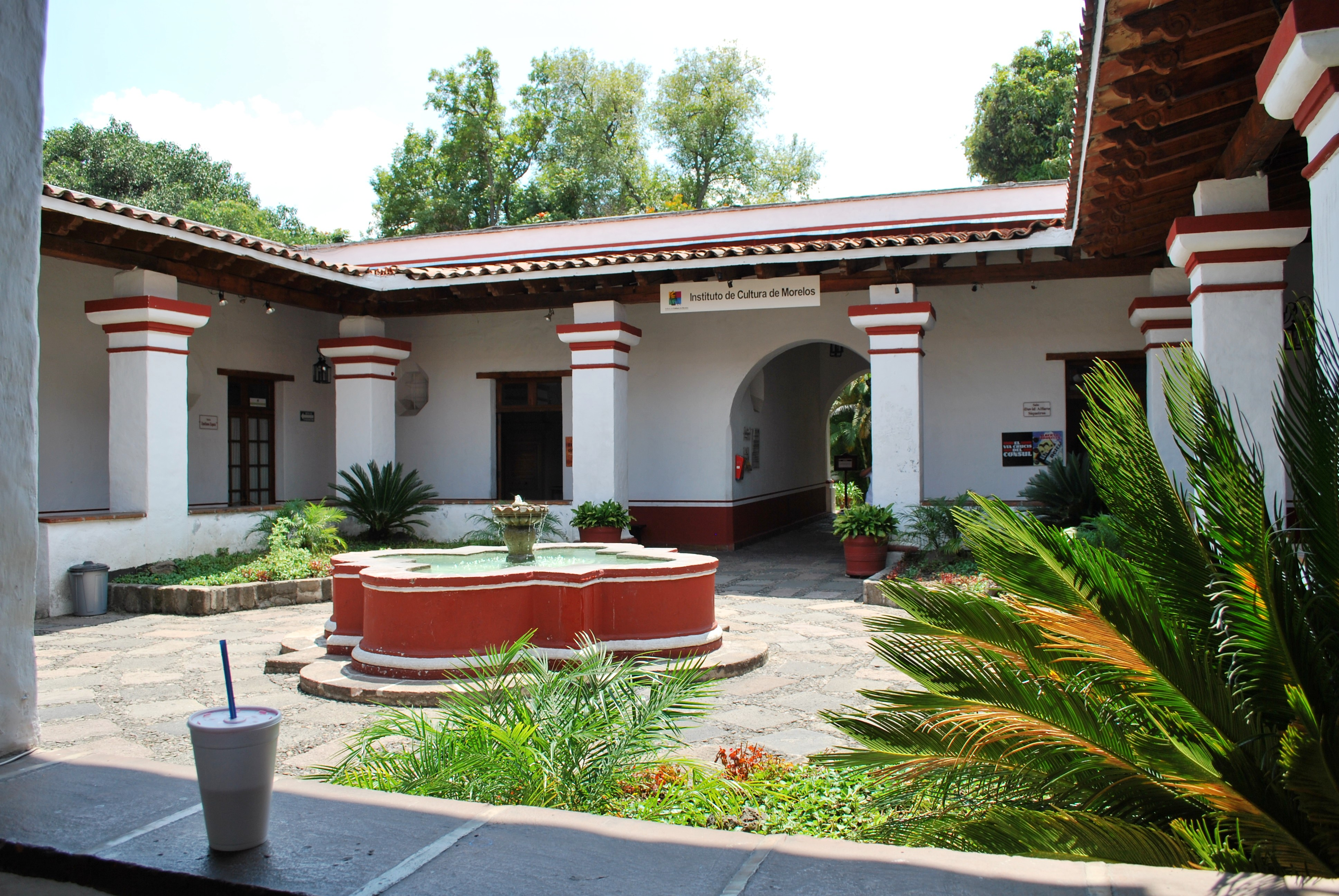 Inner courtyard of the Borda House in Cuernavaca, Morelos, Mexico